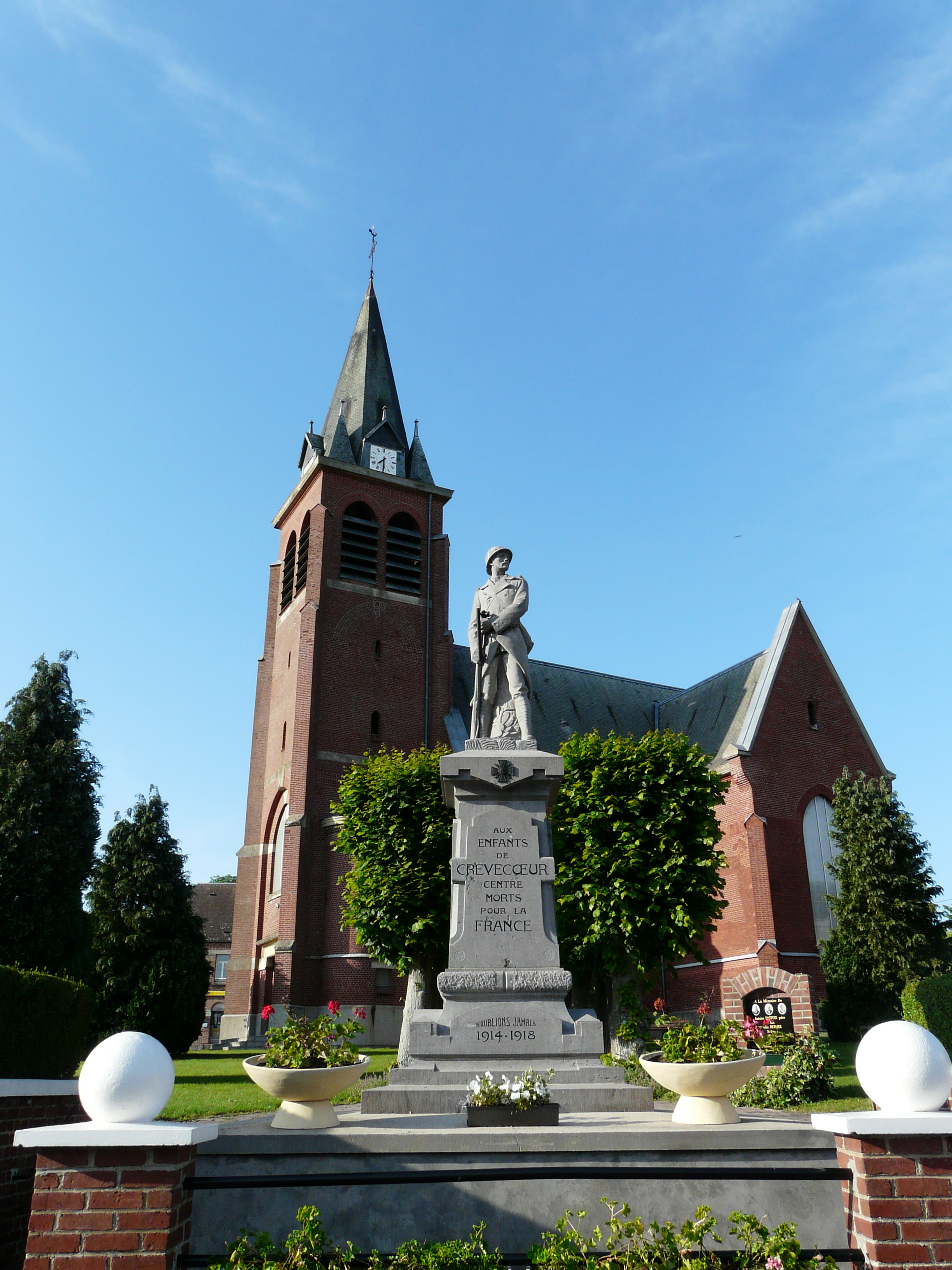 The church and WW1 memorial in Crèvecoeur-sur-l'Escaut (F)